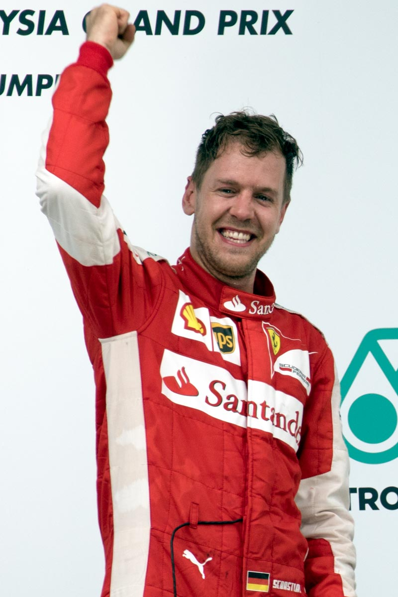 Formula One 2015 Rd.2 Malaysian GP: Sebastian Vettel (Ferrari)